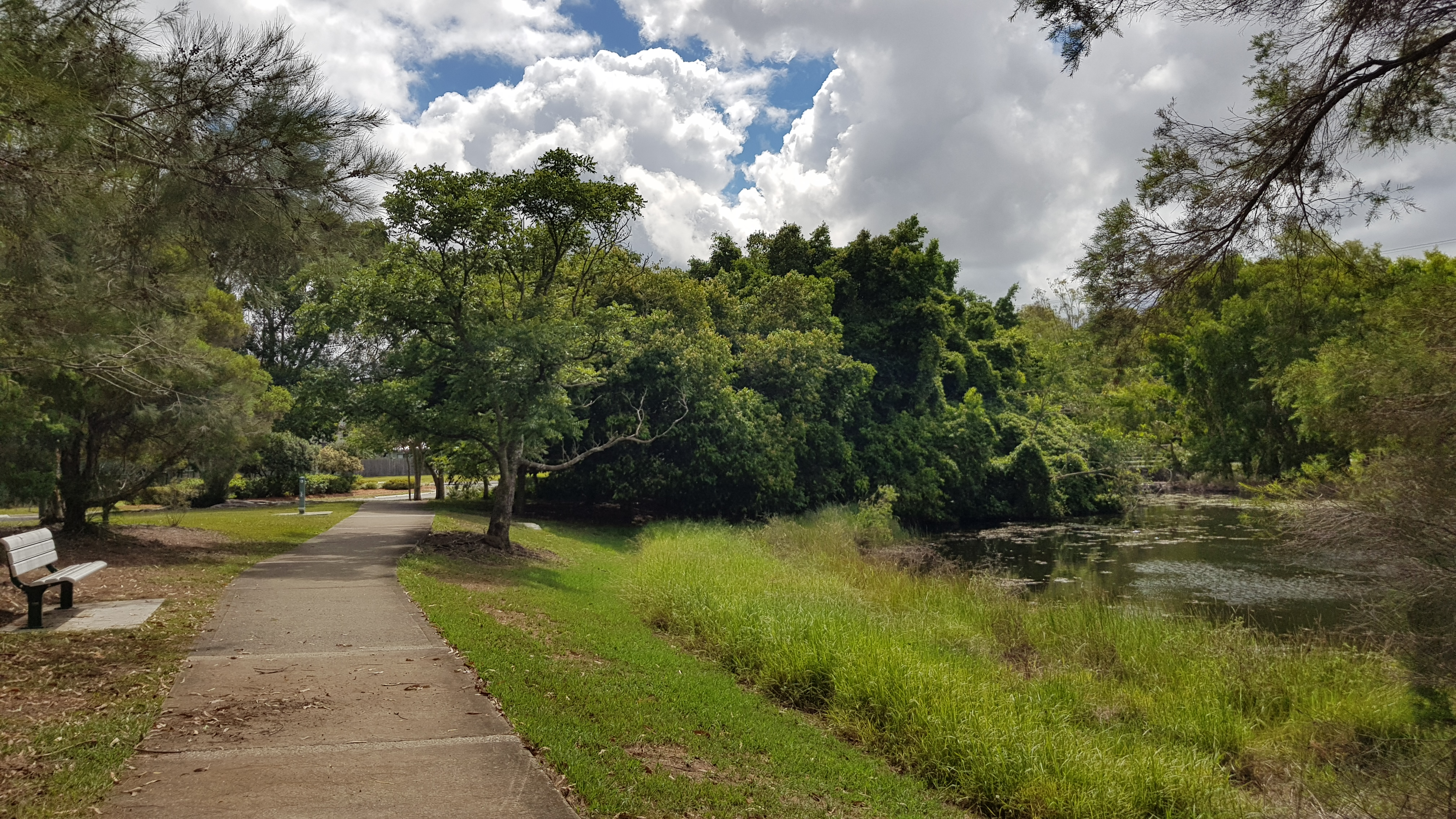 Photograph of Mount Petrie Road Park in Mackenzie, Queensland